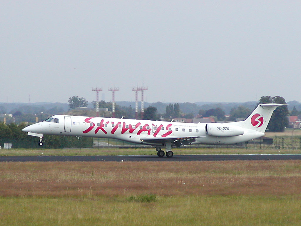 Embraer ERJ 145 SE-DZB of Skyways. Brussels, July 2002